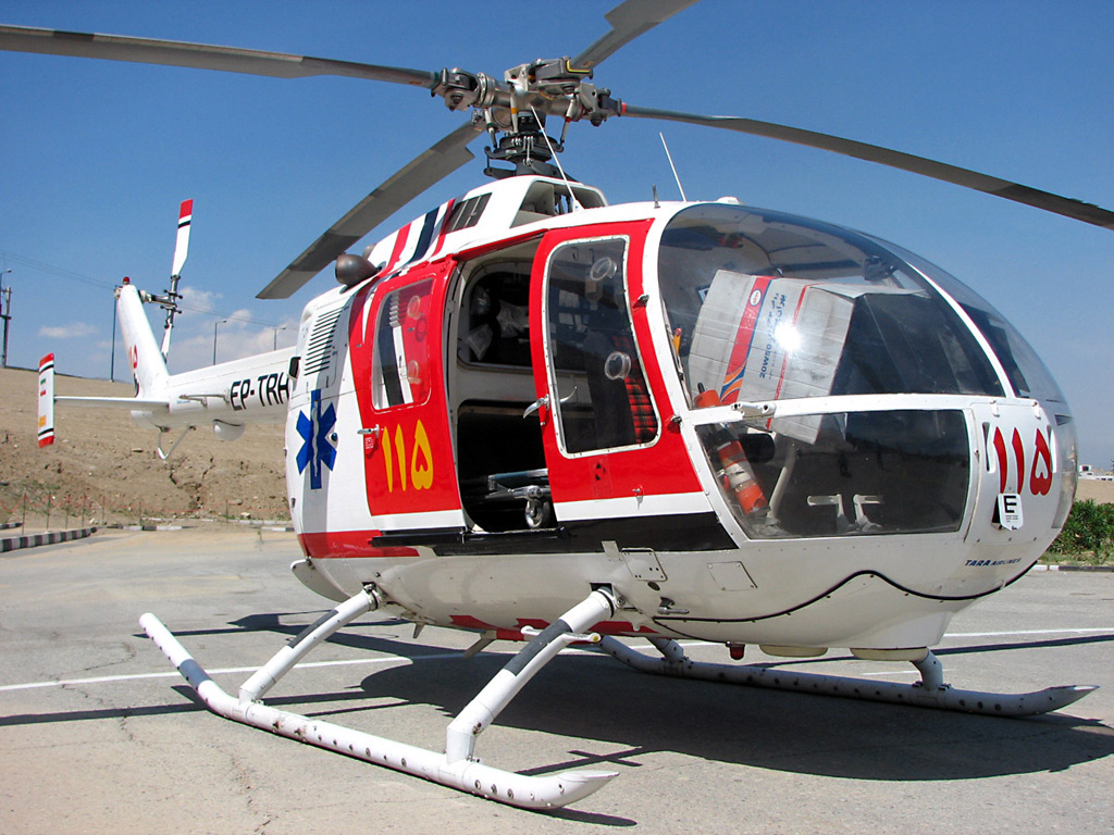 Iran Urgency organization with tel no.115 Takes injured people in accidents or another emergency problems to nearest hospitals in the country, by it ambulances.